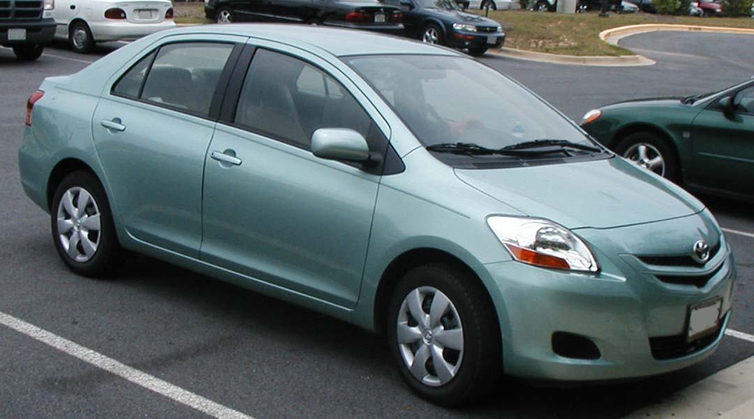 2007 Toyota Yaris sedan photographed in USA.